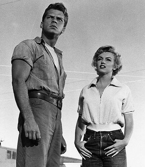 Vintage publicity still for the film Clash by Night, featuring Keith Andes and Marilyn Monroe